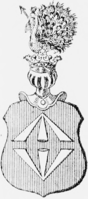 Coat of arms Bogoria from Księga herbowa rodów polskich by J.K. Ostrowskiego